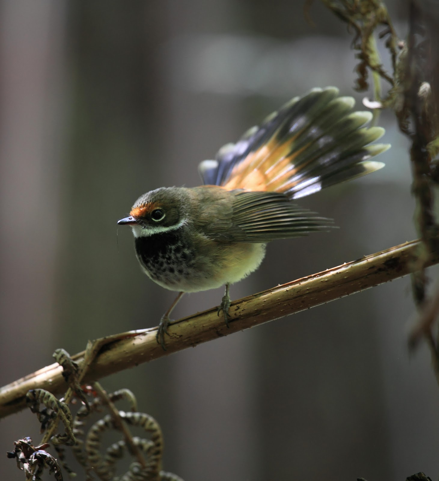 Rufous Fantail (Rhipidura rufifrons), Dandenong Ranges, Victoria, Australia